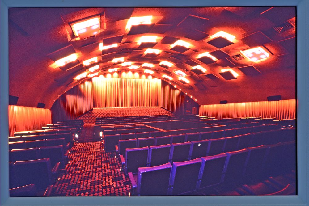 Village Twin Cinemas (1999) - Purple Room